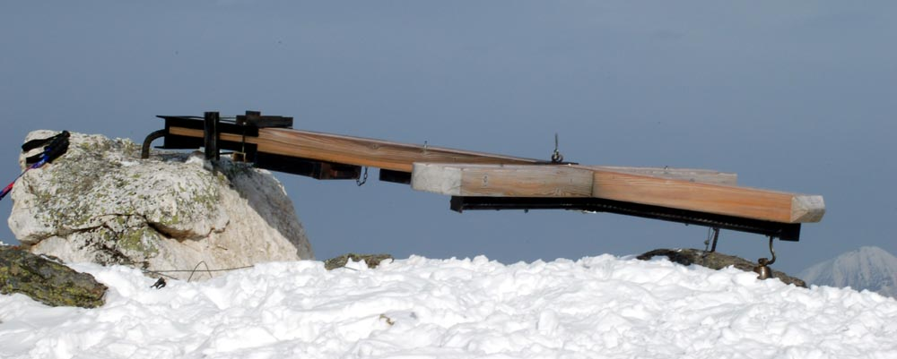 Cross on the summit of Hohen Zinken (2222 m, Styria), blown by storm Kyrill.